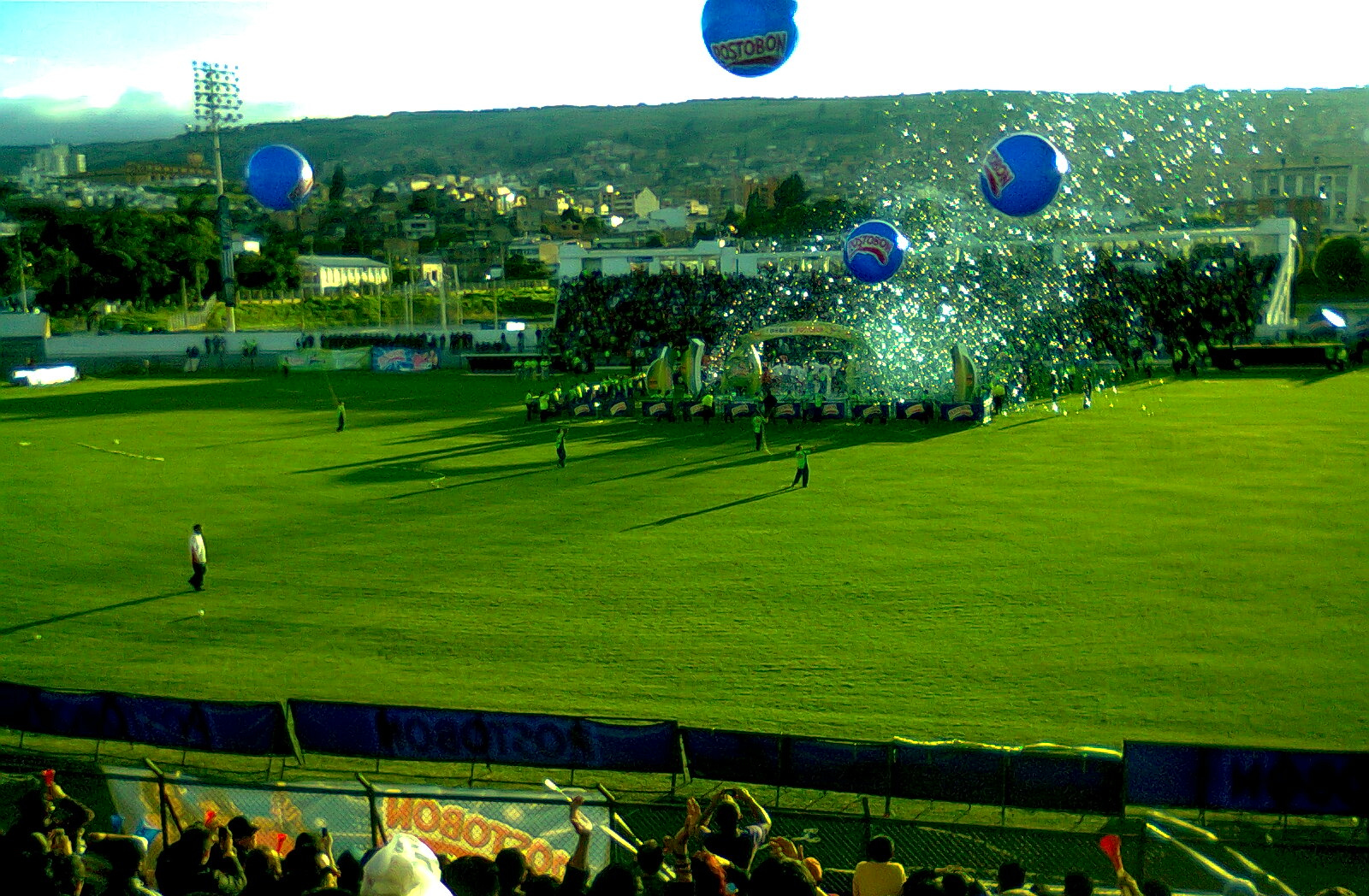 Patriotas Football Club